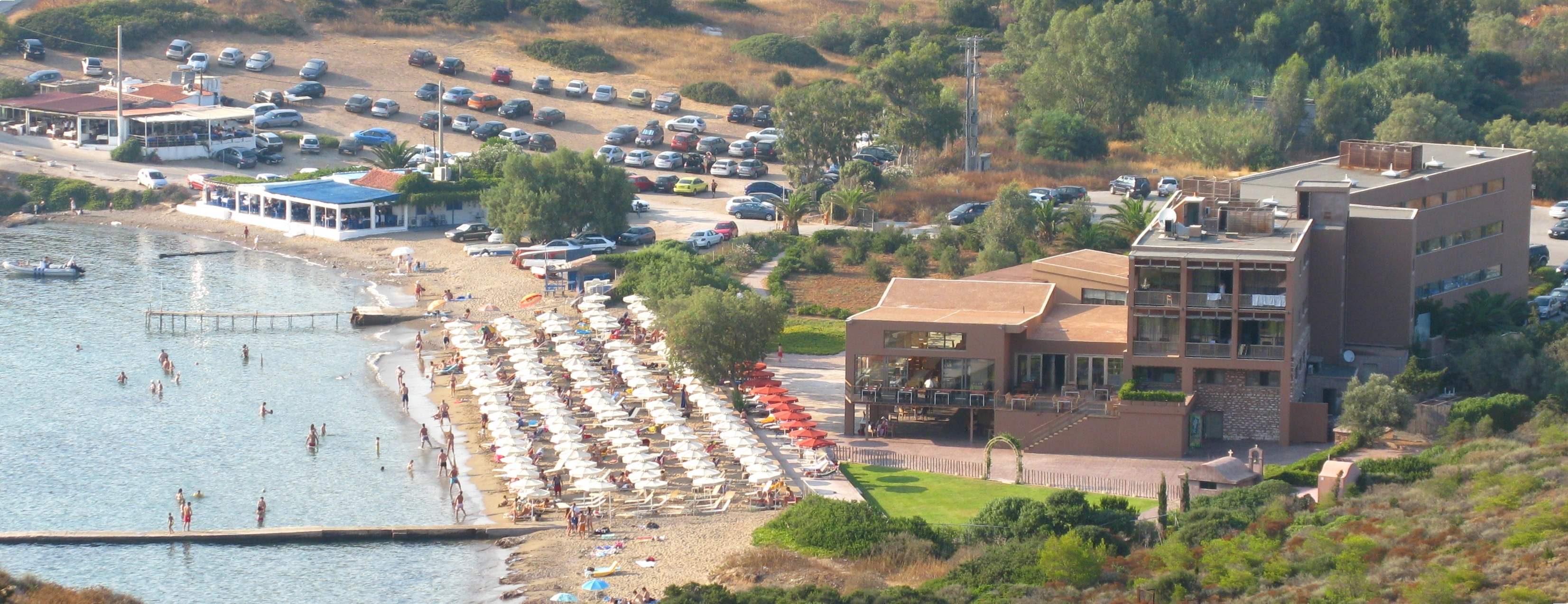 At Cape Sounio (Attiki, Greece)